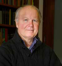 Brent Shaw, Canadian Historian and Classicist